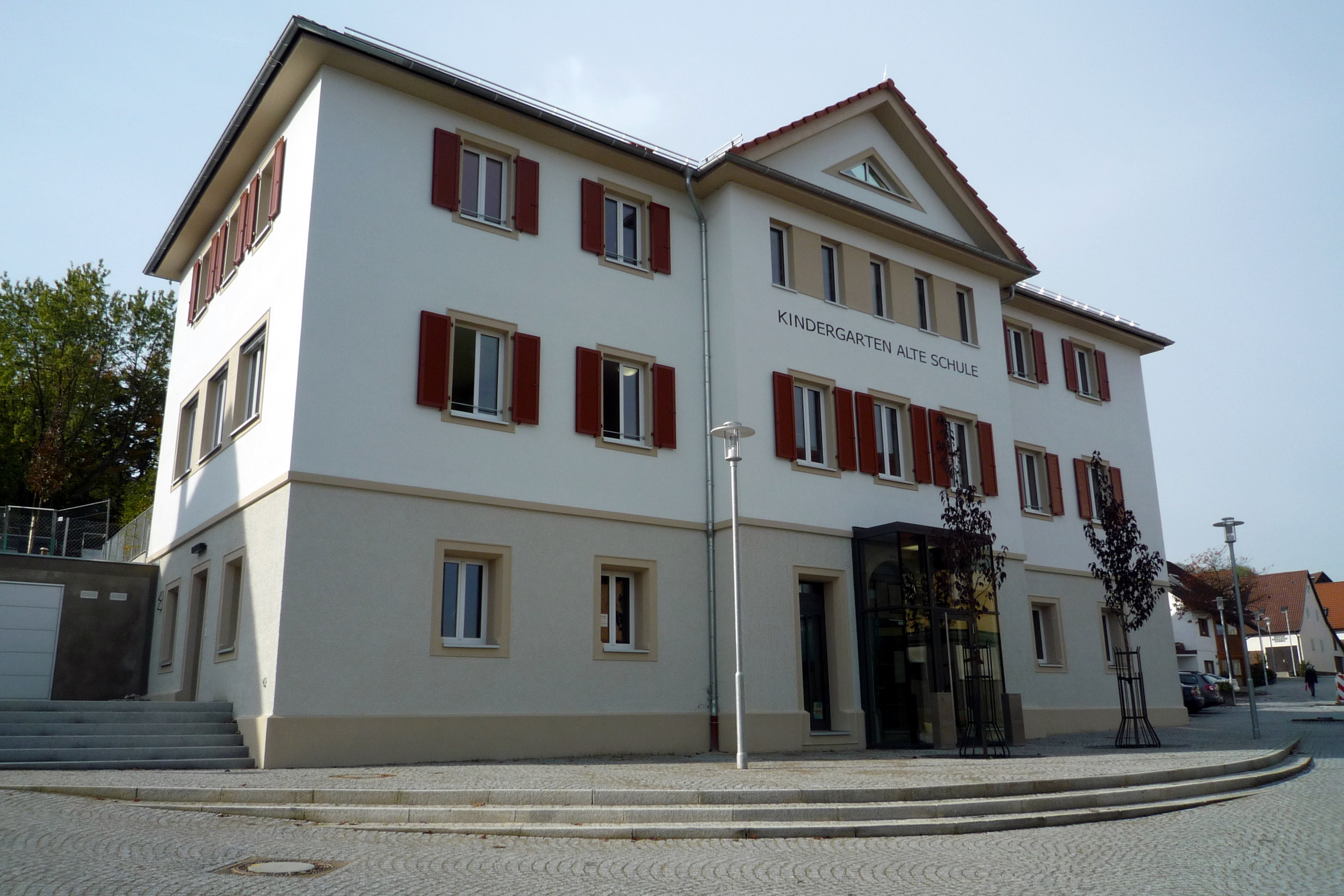 Old Schoolhouse (1845) (Deizisau, Baden-Württemberg, Germany)